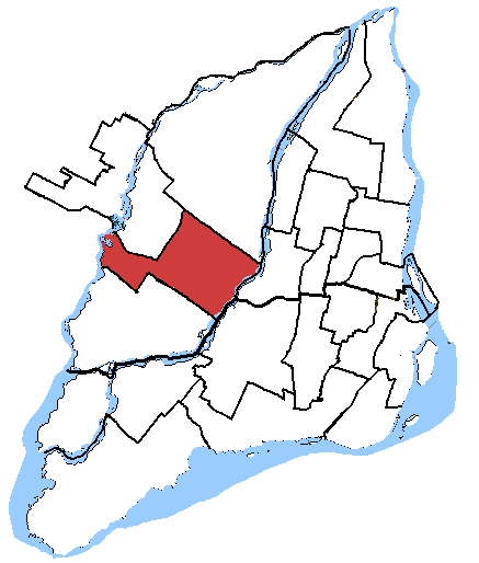 Map of the Laval electoral district. Based on Earl Andrew's maps, created by SimonP.